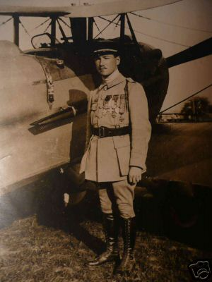 René Fonck posed near his SPAD XIII